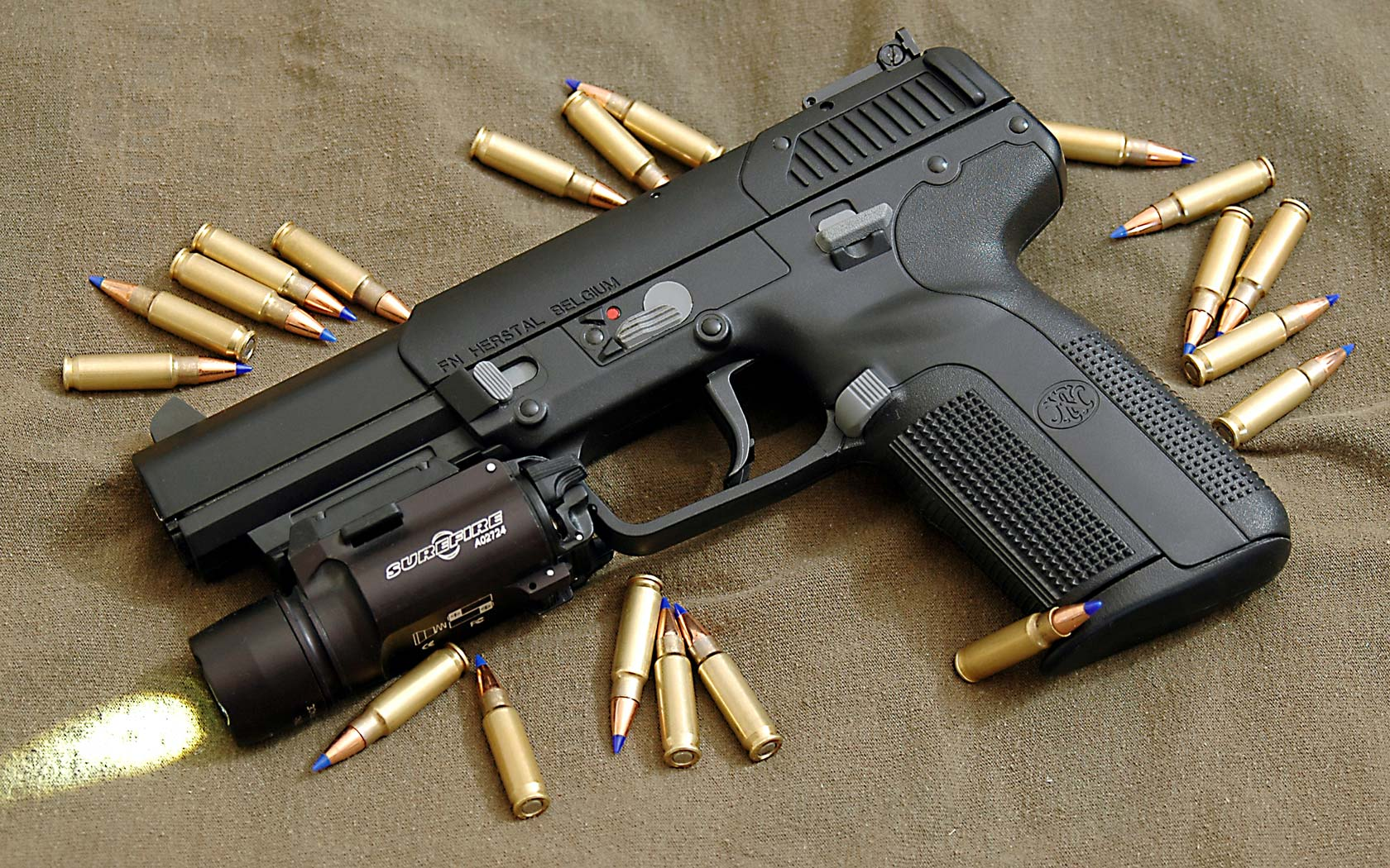 Photo of a Five-seveN USG model. It also has attached a Surefire X200a light, and is surrounded by twenty en:5.7x28mm cartridges, the contents of the standard magazine.